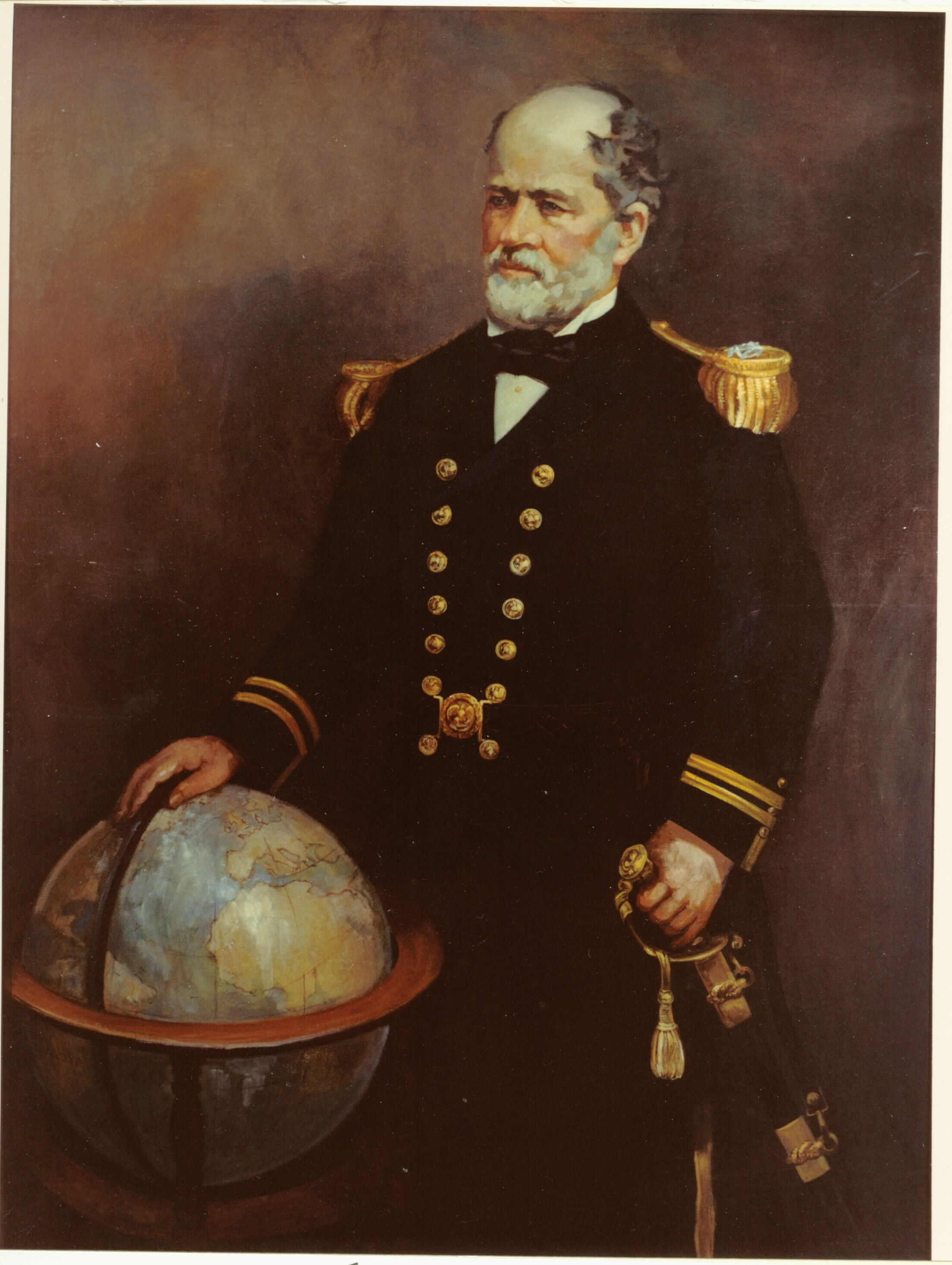 Naval Historical Center, Washington, D.C. (Sept. 9, 2003) – A painting by E. Sophonisba Hergesheimer of Cmdr. Matthew Fontaine Maury, USN, (1806-1873), painted in 1923. Concerned that Sailors lacked standardized ocean wind and current charts and methods for taking meteorological readings at sea, the then Lt. Maury called an international conference that met in Brussels, Belgium, in August 1853. This conference established international cooperation as key to maintaining accurate navigational charts for all mariners. The Navy Museum celebrated the contributions of Matthew Maury standardizing navigational charts and meteorology at sea by opening its reinstallation of a permanent exhibition on navigation entitled “Pathfinding on the Seas” on Tuesday, Sept. 9, 2003. U.S. Navy file photo. (RELEASED)